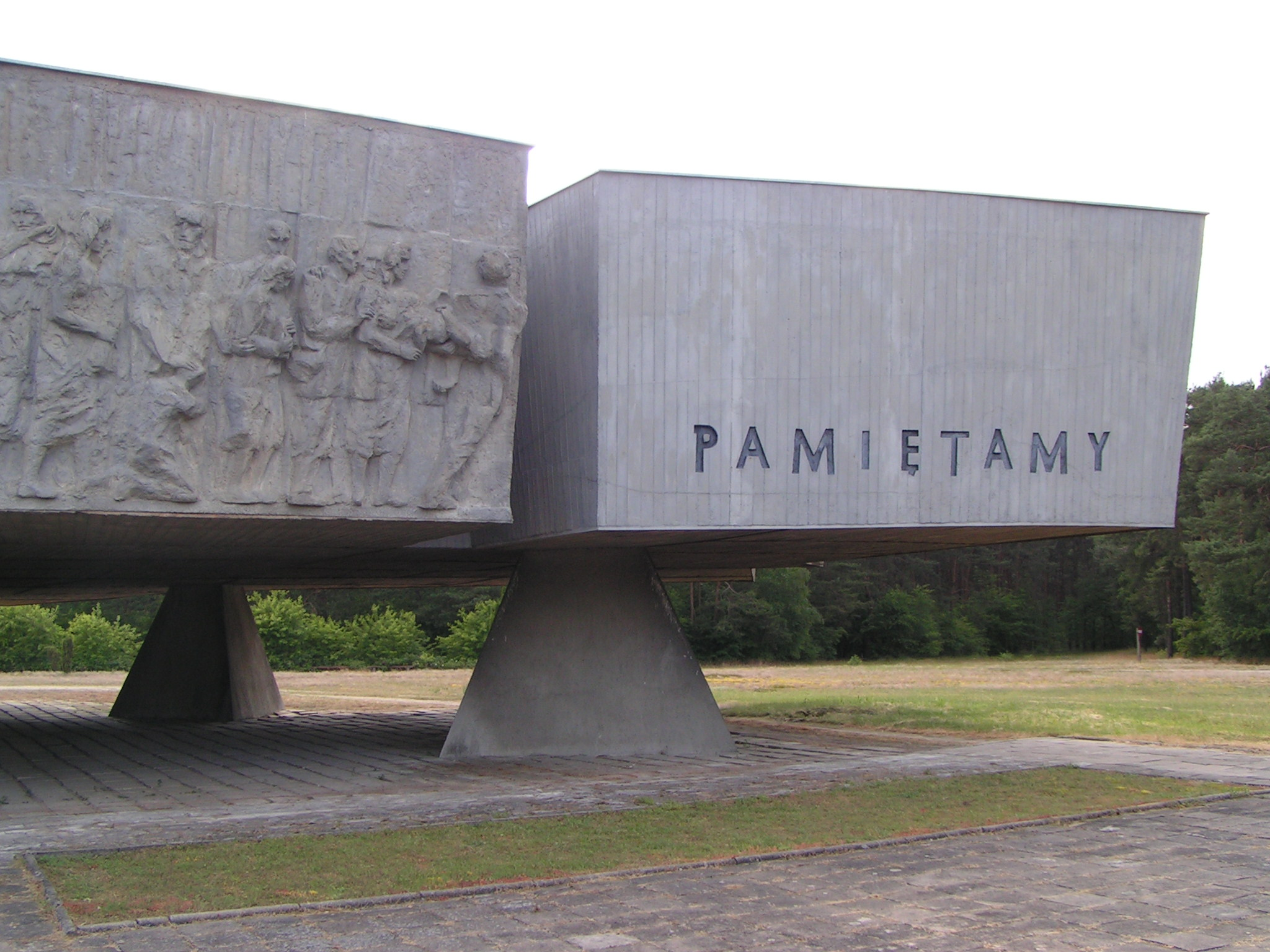 Memorial for the Chełmno extermination camp, in Rzuchów forest (midway on the road from Chełmno to Koło, this glade is about 200 metres away form the road), where the dead bodies were discharged from the gas vans, in order to be placed in mass graves ; thereafter, the corpses had been incinerated in a neighbouring glade a few hundred metres further. Globally, about 150,000 people, Jews above all, had been exterminated in Chełmno, mainly during year 1942 : that extermination camp, the first one of this kind, began to operate in December 1941, a few weeks before the official start of the "Final Solution to the Jewish Question" (Wannsee Conference, 20 January 1942, under the direction of SS general of the Police Reinhard Heydrich, missionned by Reichsmarschall Hermann Göring).